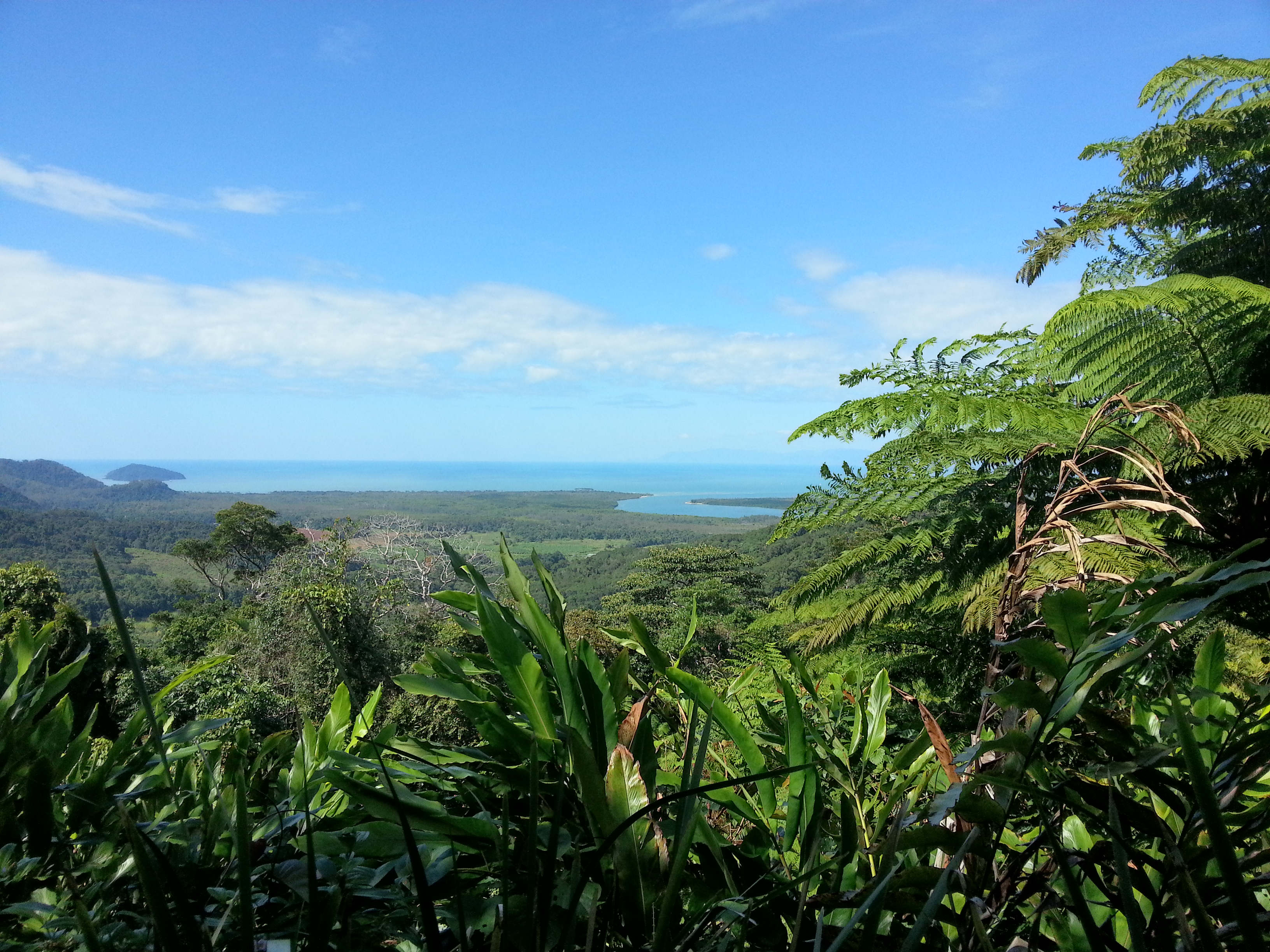 Daintree National Park, Queensland, Australia.